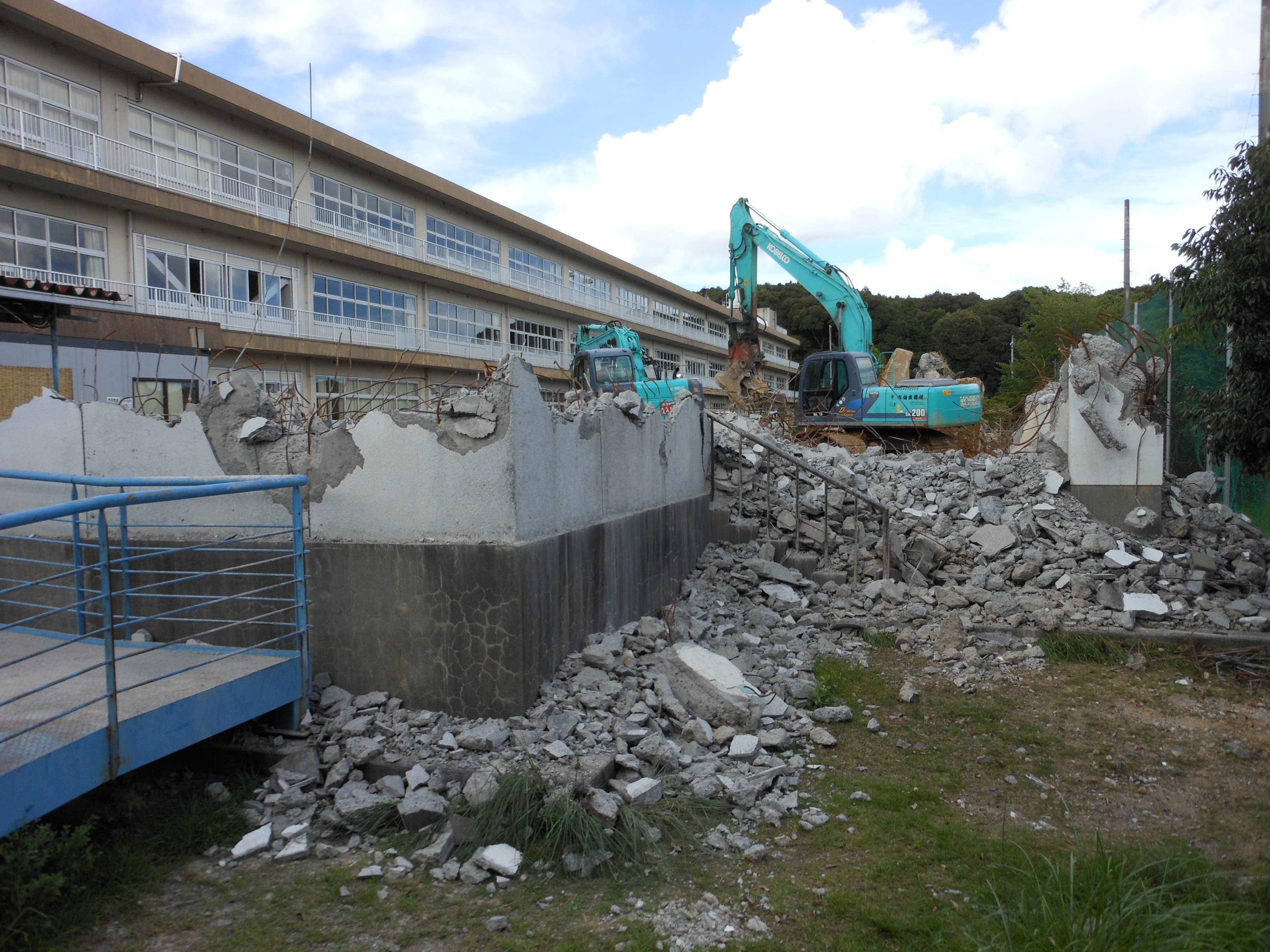 This is a scene of Shima city Isobe elementary school library's pulling down in Shima, Mie, Japan.